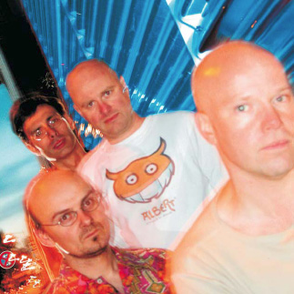 Cosmo zaloom